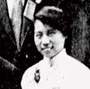 Chen Hengzhe Peking University Alumni - date has to be before 1965 to be copyright free and she is not in her 70s in this pic - guess 55 but prob b4